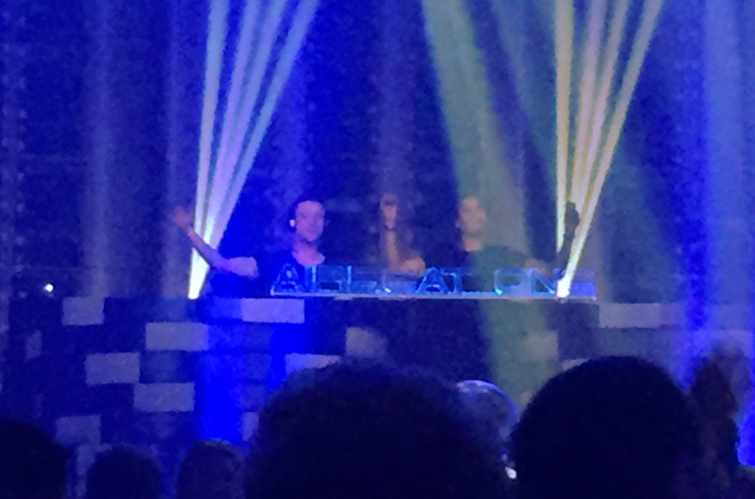 Lucas & Steve playing live at Airbeat One Festival 2017 at Neustadt-Glewe, Germany